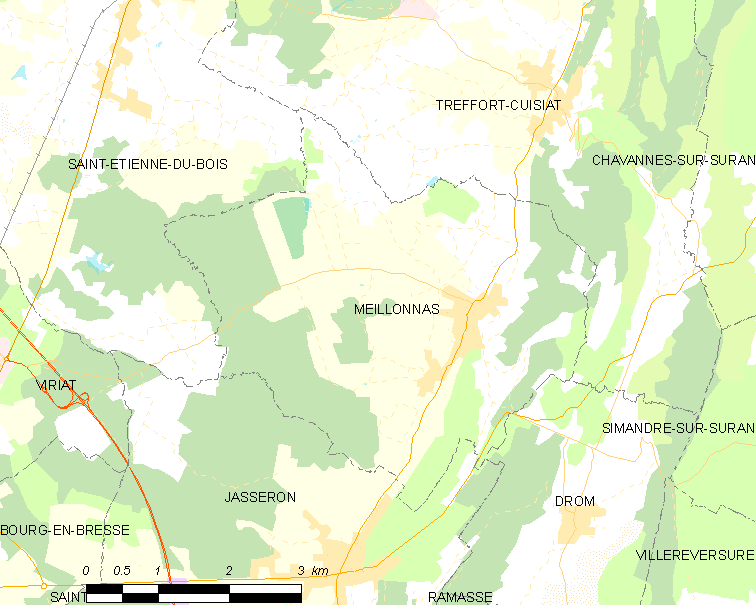 Map of French commune: Meillonnas Map commune FR insee code 01241.png